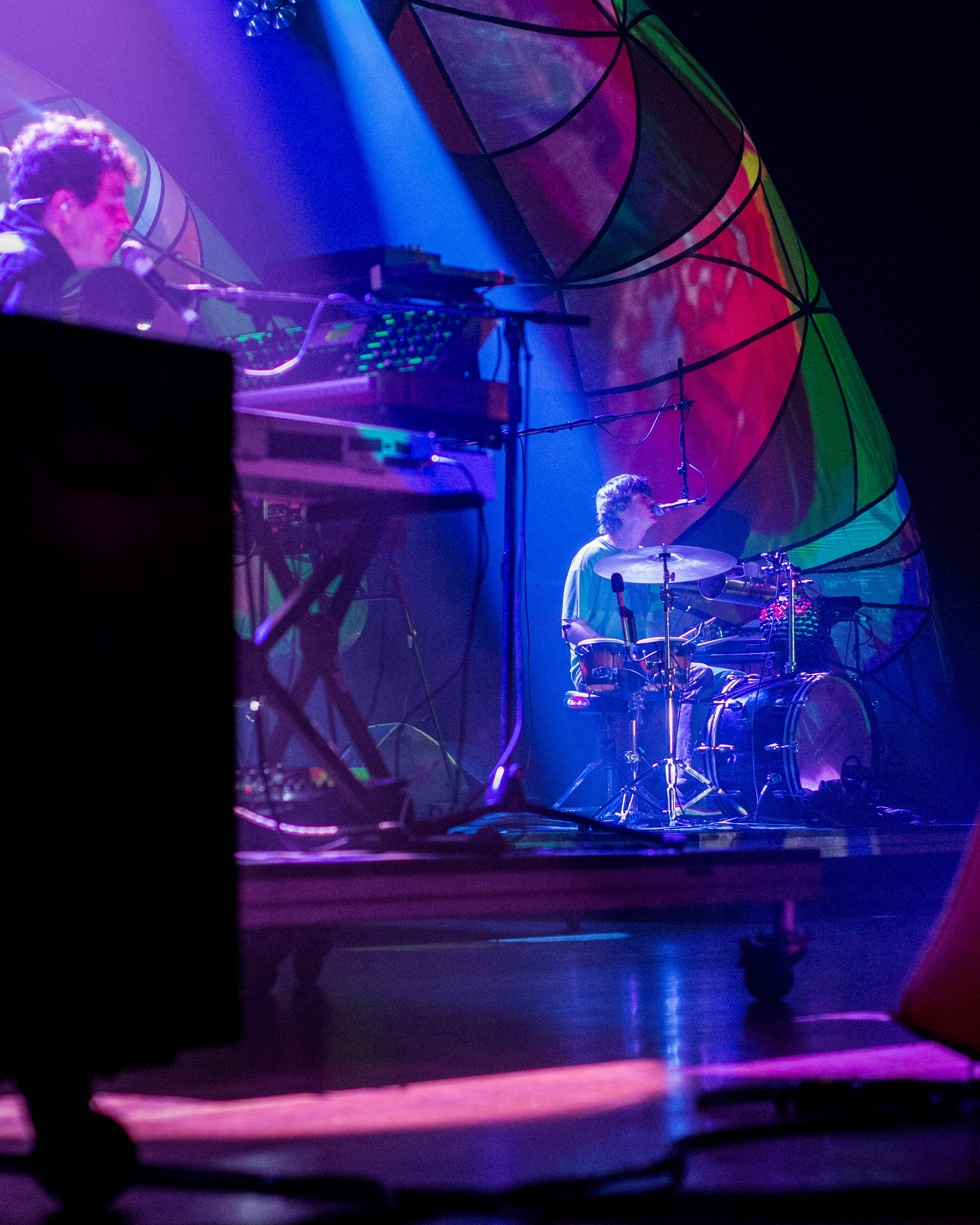 Animal Collective performing at Mountain Oasis Electronic Music Summit in October 2013